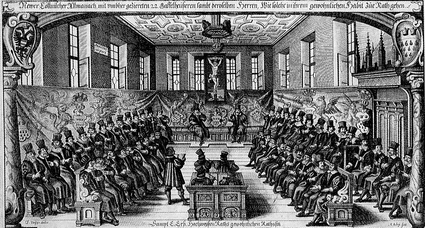 Session of the Cologne Senate in the senate room at the Rathaus. Engraving after a drawing by Johann Toussyn dated 1655.